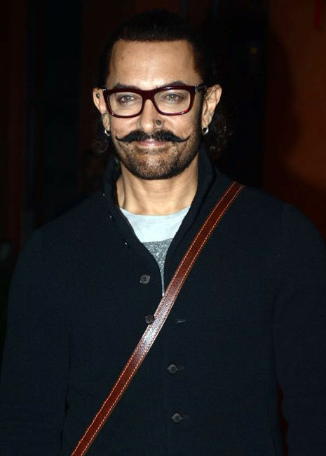 Aamir Khan graces the success bash of Secret Superstar.